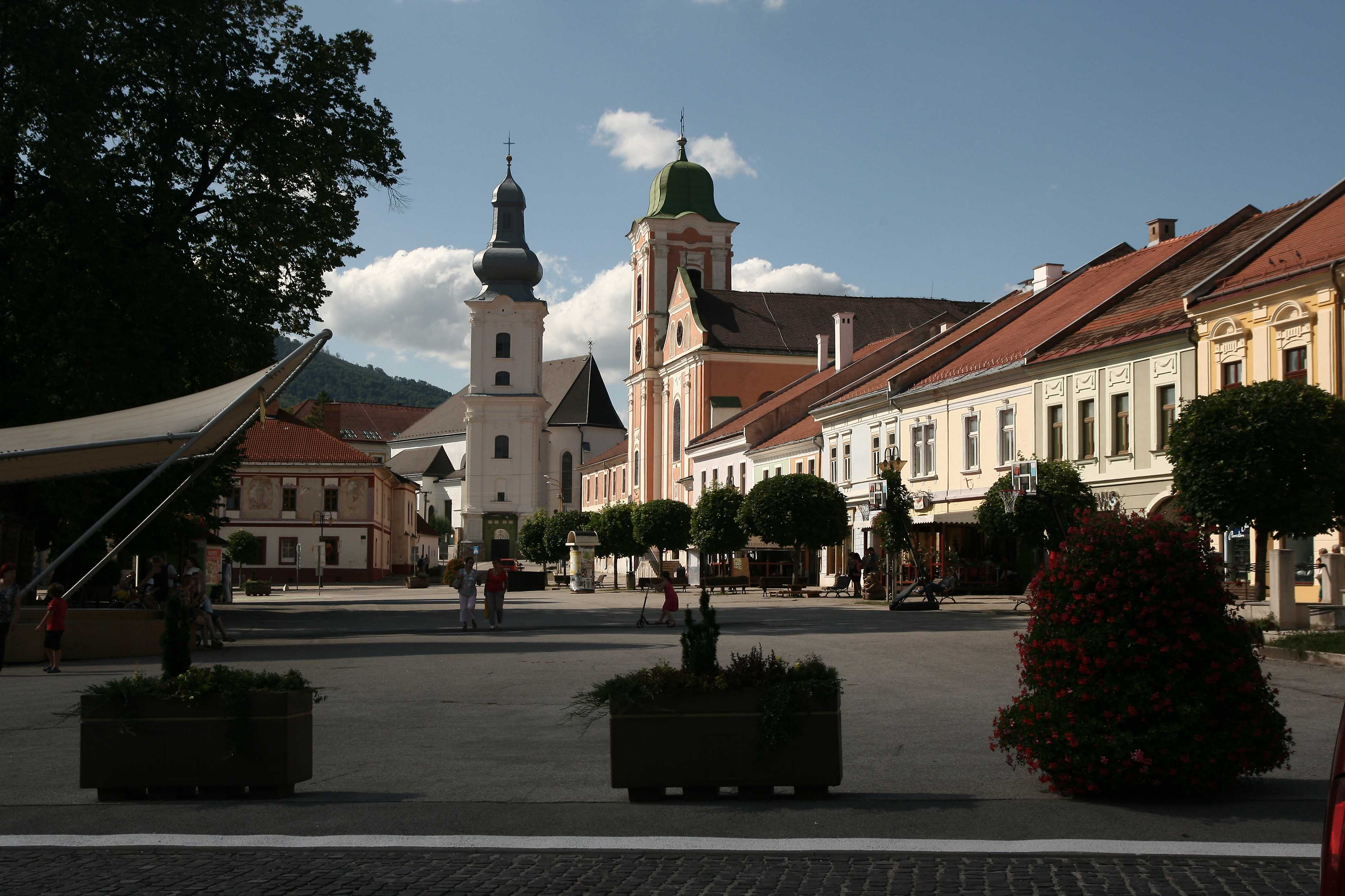 The miners square (Námestie baníkov) in Rožňava, Slovakia. The Cathedral and the Saint Anne church.